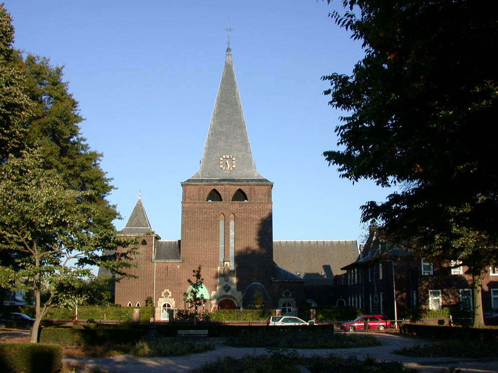 St. Theresiakerk in Tilburg, The Netherlands